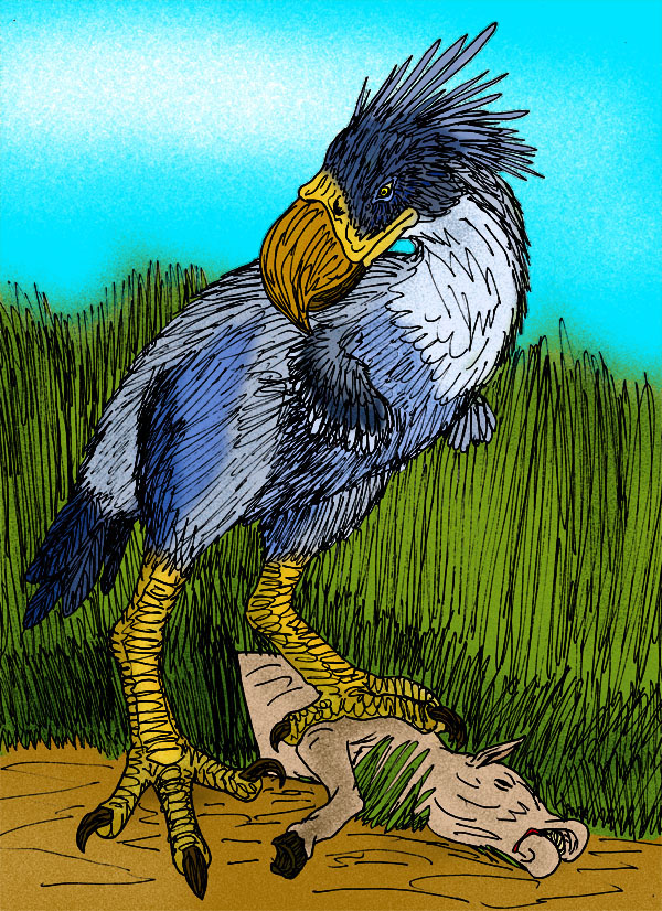 Reconstruction of the 3 meter-tall phorusrhacid, Brontornis burmeisteri, from Early Miocene South America.